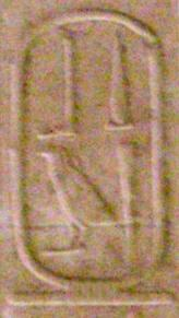 Royal cartouches 9 through 14